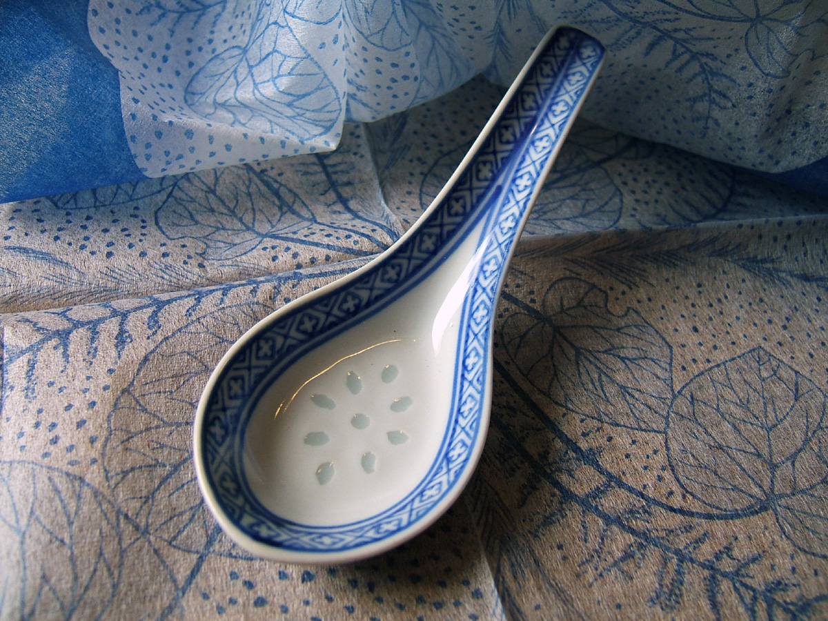 Porcelain spoon